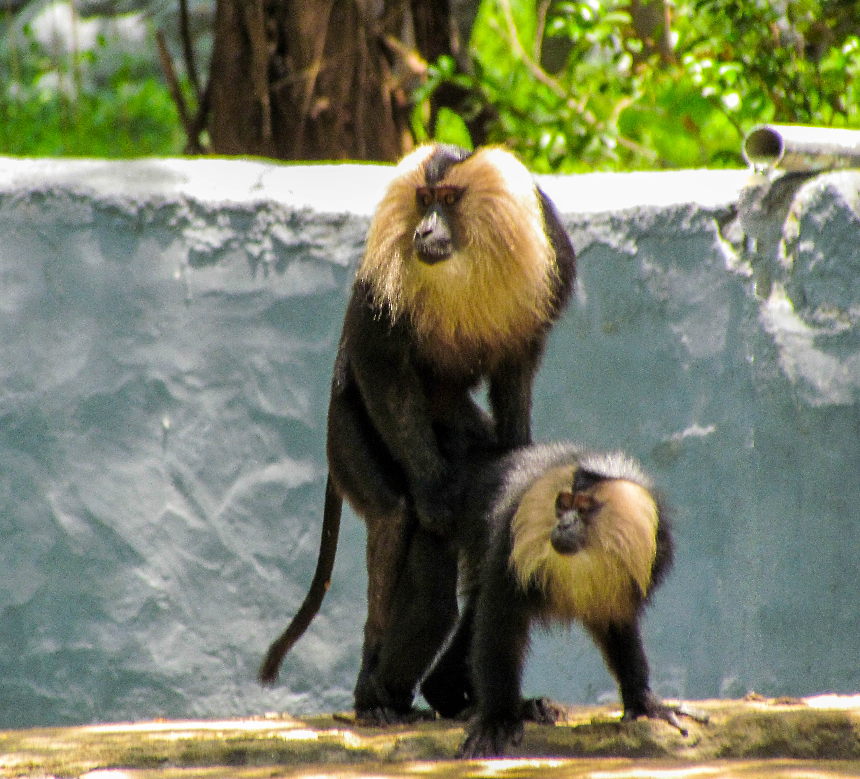 Baboons putting on a show.